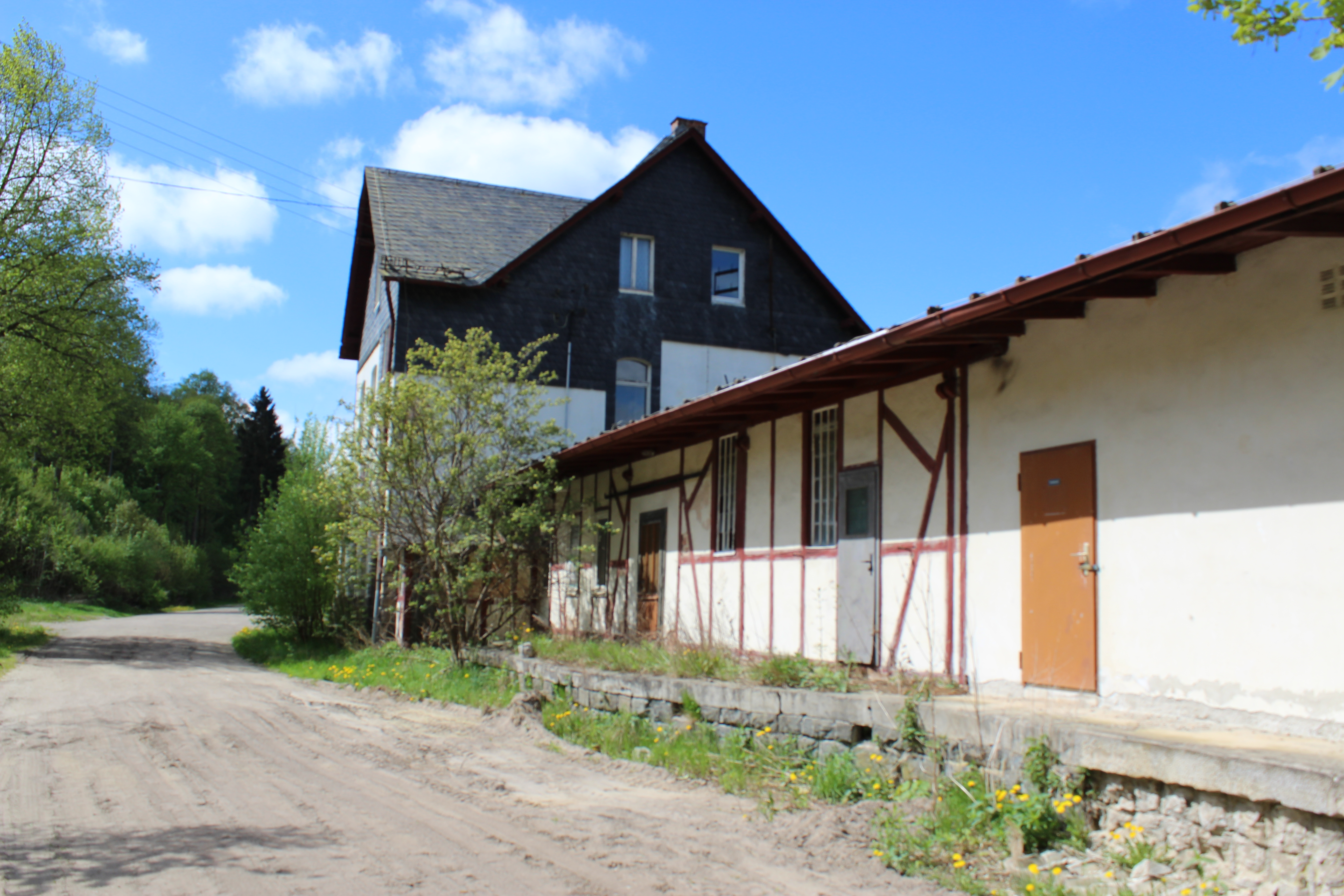 train station Wurzbach, station building and goods shed